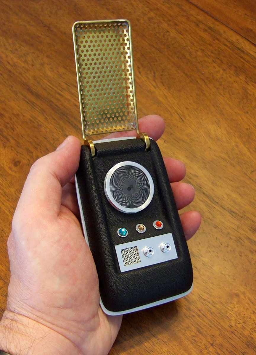 Photograph of an accurate reproduction of Wah Chang's Communicator for Desilu Productions' "Star Trek" television series.